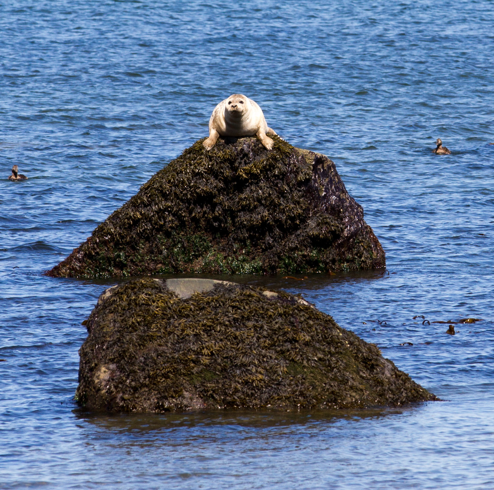 A seal resting in Parc du Bic, Quebec, Canada